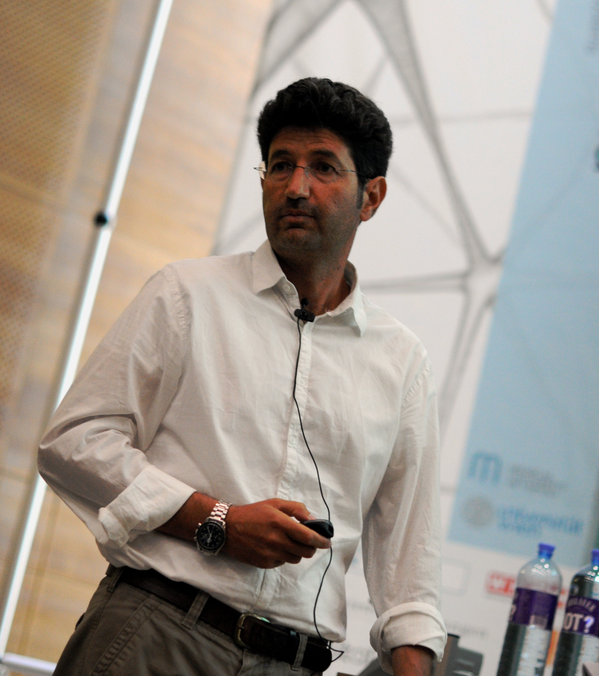 Photo of Prof. Vito Latora during his talk at the 2011 European Conference on Complex Systems held in Vienna.